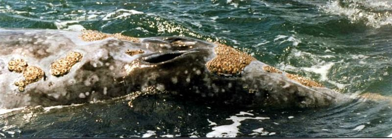 A close-up of a Gray Whale's double blow hole and some of its encrusted barnacles. This photo was taken in San Ignacio Lagoon in Mulegé Municipality, Baja California Sur. Please acknowledge "Phil Konstantin" as the creator of this photograph.